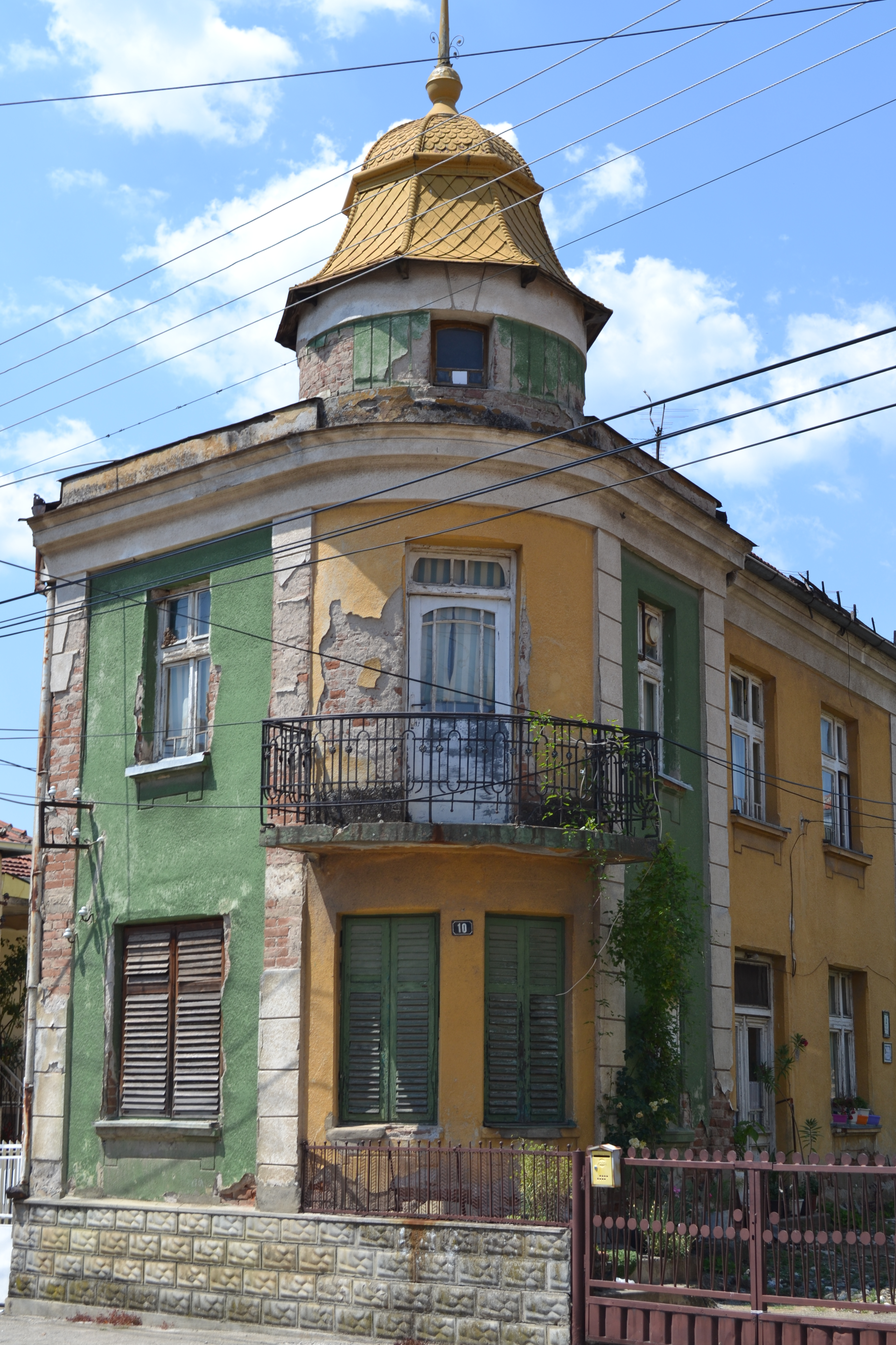 Кућа Миладина Ђођевића